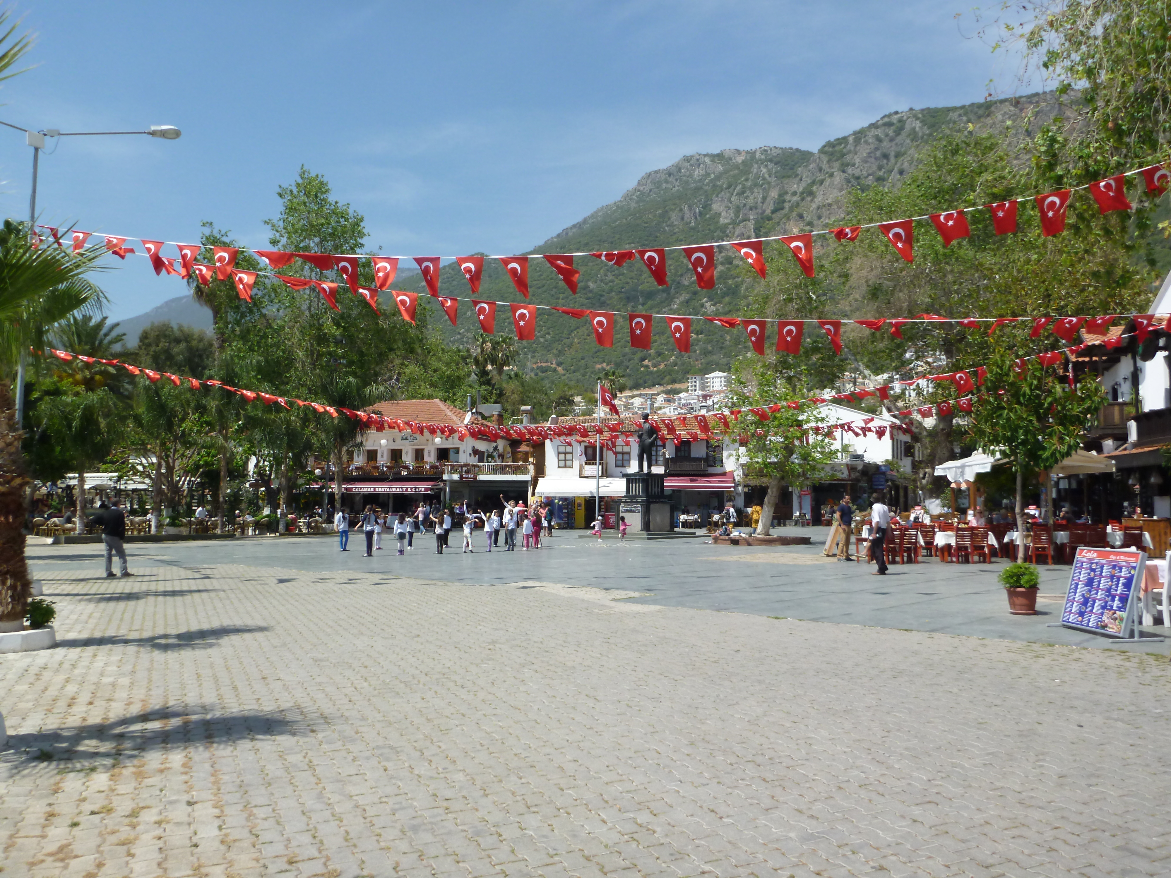 Atatürk-Place in Kas